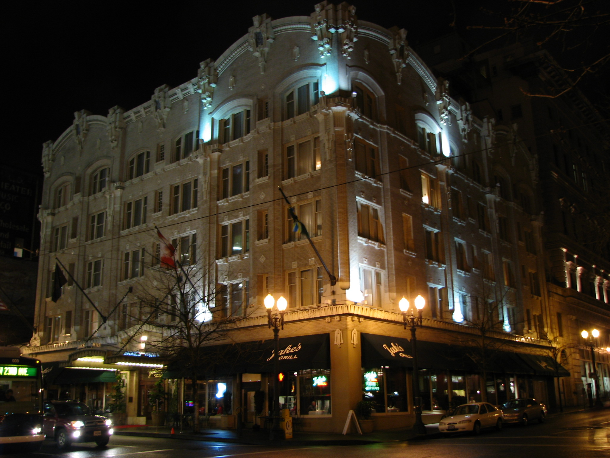 The Governor Hotel in downtown Portland, Oregon. Opened in 1909 as the Seward Hotel, this building carried the name the Governor Hotel from 1931 to 2014, but from 1992 on it was really only one of two buildings that made up the Governor (the east building), after the hotel operation was expanded to include an adjacent building directly behind this one. NRHP reference # 85000370 (under name Seward Hotel)